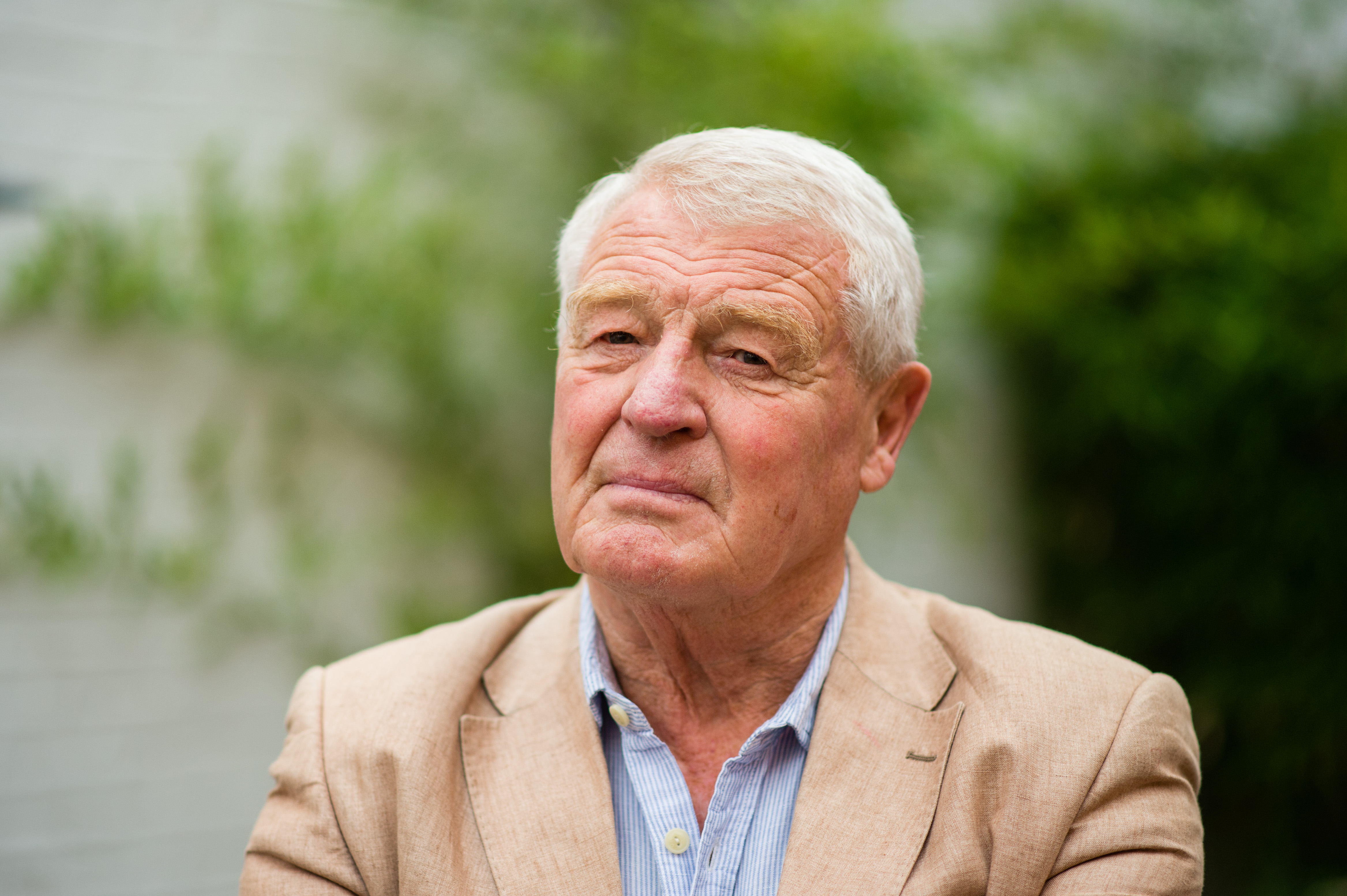 A portrait of Paddy Ashdown